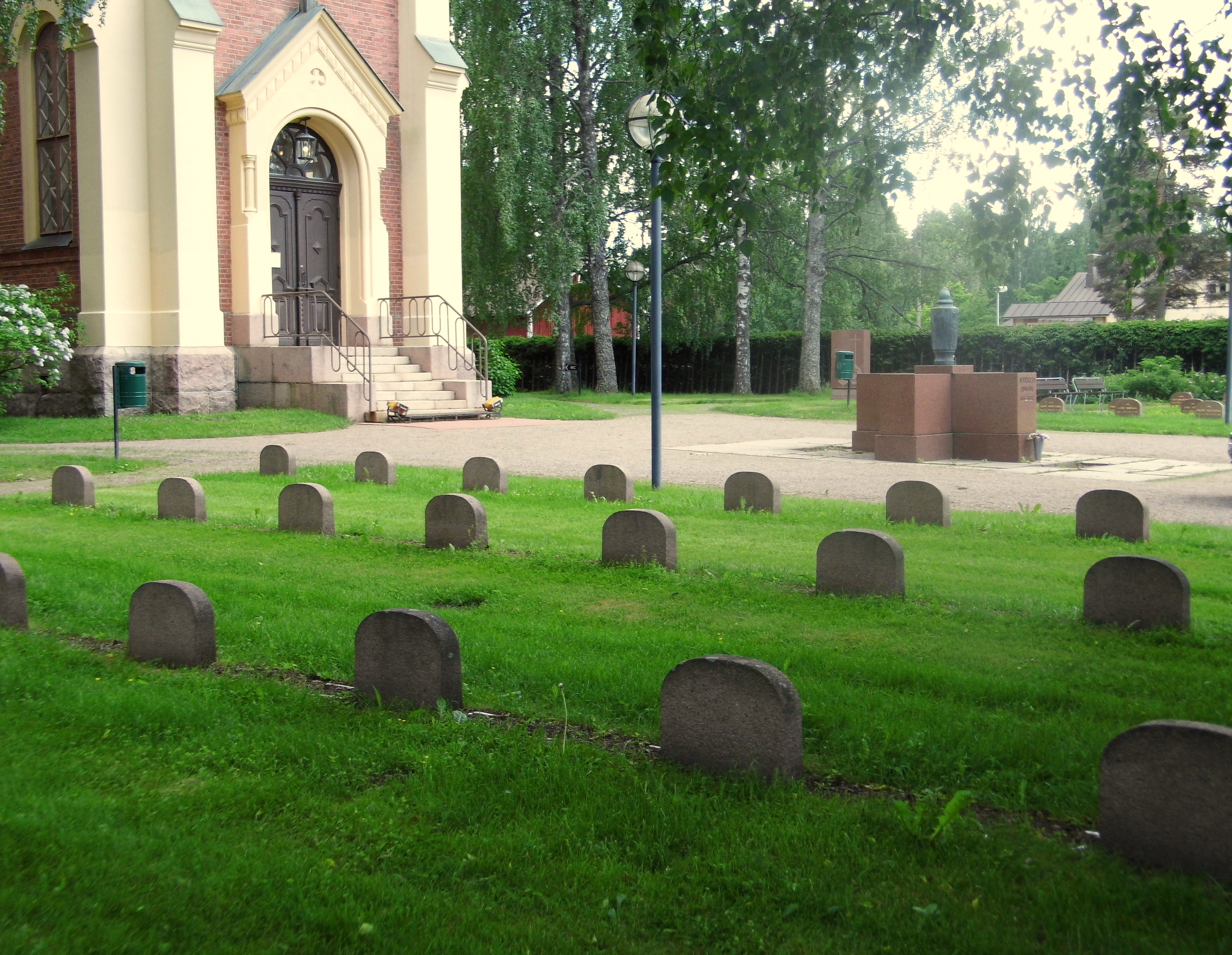 Military cemetary at church in Kärkölä, Finland